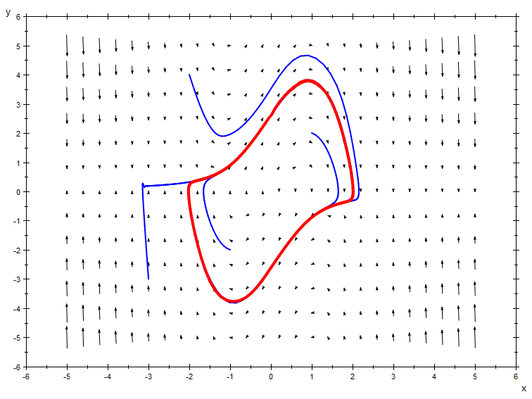 Phase portrait of the unforced Van Der Pol Oscillator. Made by myself with MuPad.